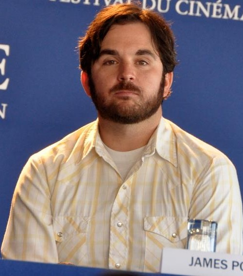 James Ponsoldt at the Deauville American Film Festival